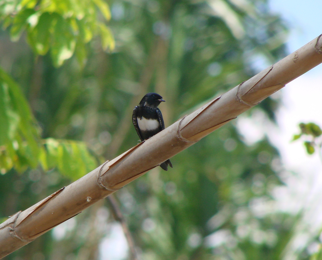 White-banded swallow (Atticora fasciata). Rio Purus, Acre.